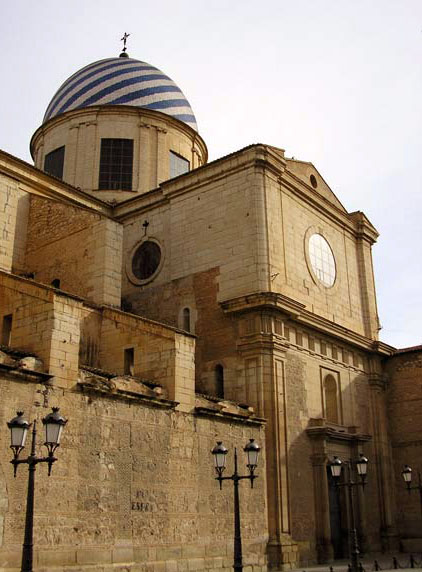 Basilica de la Purísima, in Yecla (Región de Murcia, Spain)